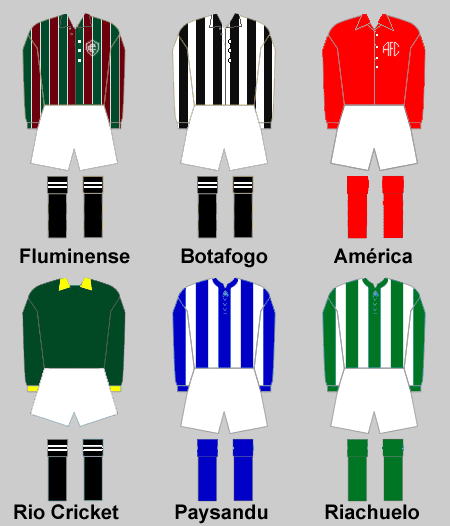 Shirts of the football clubs in 1908 Rio de Janeiro championship